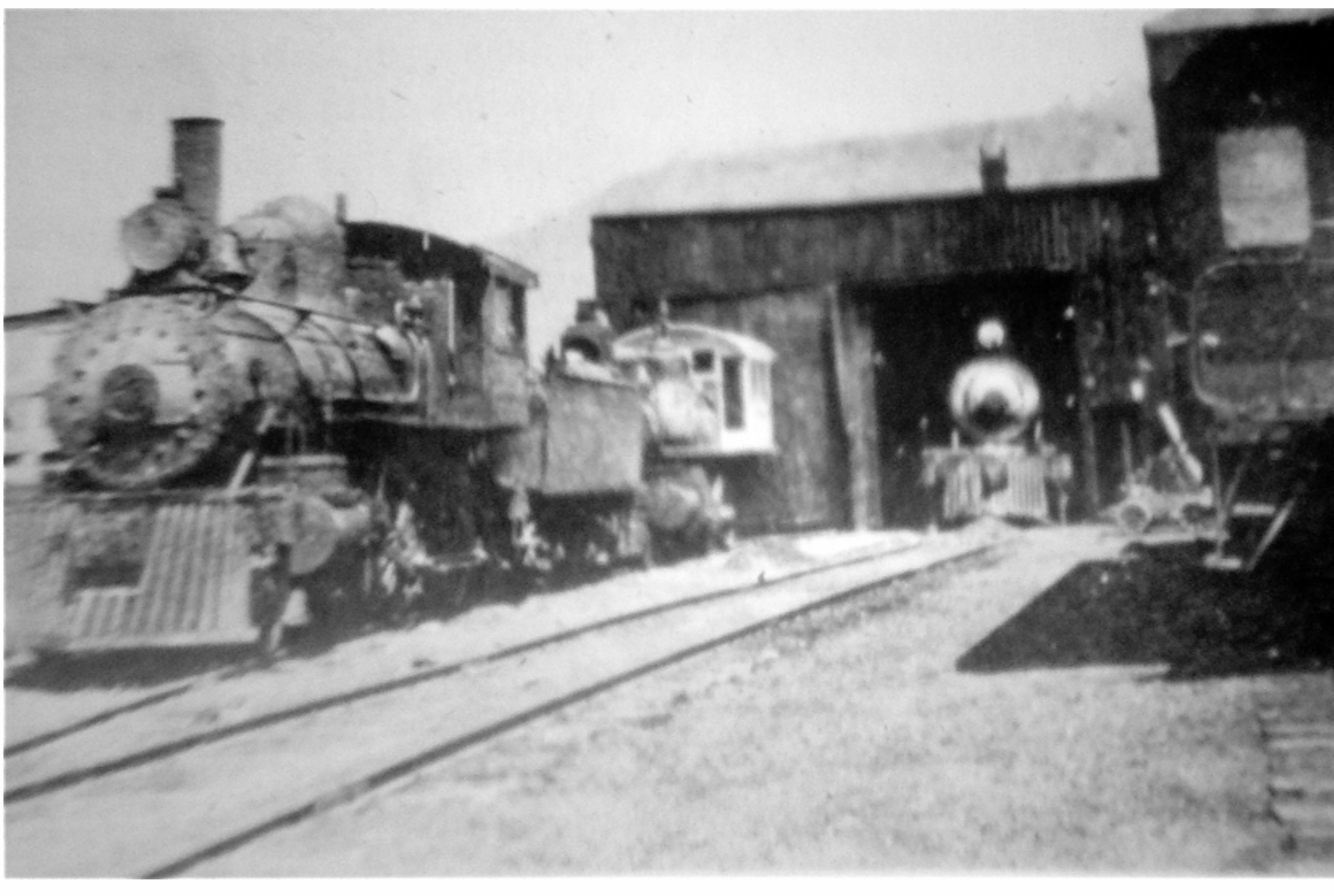 Steam locomotives belonging to the New York & Pennsylvania Railroad, in front of its engine house, in Canisteo, New York.